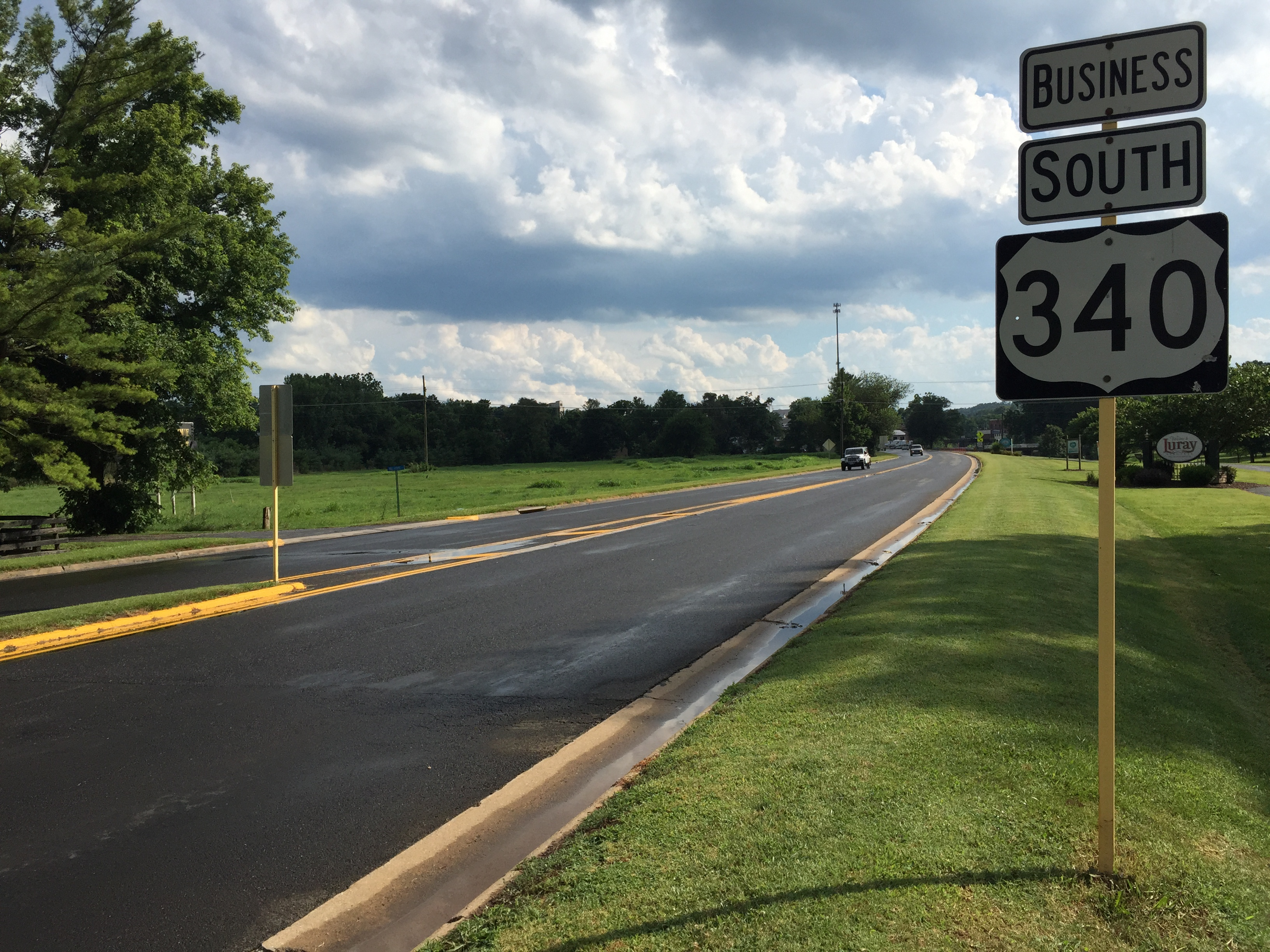 View south along U.S. Route 340 Business (Broad Street) near Hill House Lane in Luray, Page County, Virginia